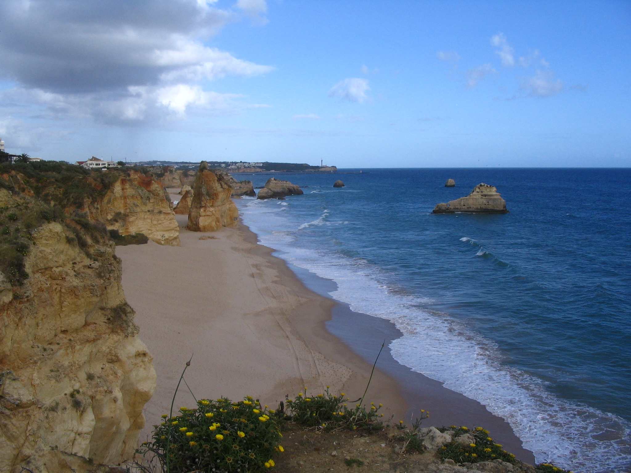 Avril 2009